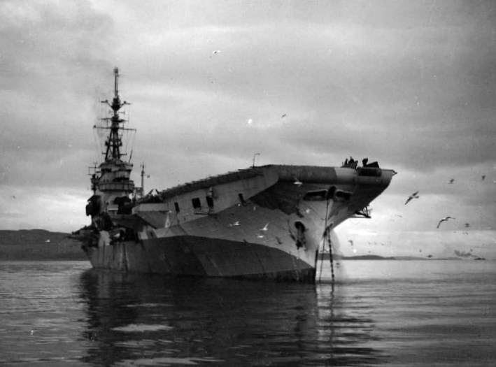 The Royal Navy aircraft carrier HMS Colossus (R15) at Greenock, Scotland (UK).